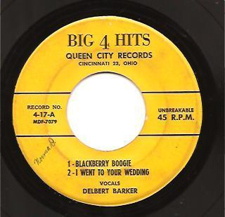 Blackberry Boogie & I Went to Your Wedding by Delbert Barker, Big 4 Hits 1952. Originally recorded by Tennessee Ernie Ford and Hank Williams.